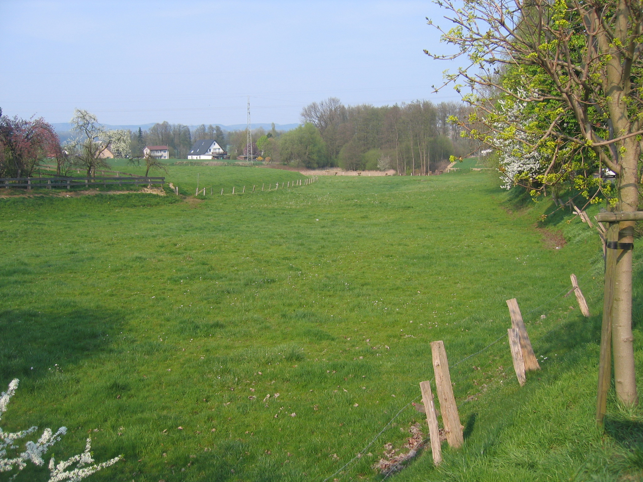 Landscape in Bünde, District of Herford, North Rhine-Westphalia, Germany.